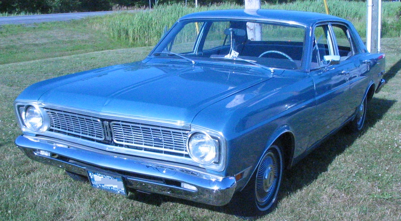 1968 Ford Falcon photographed in Mont St. Hilaire, Quebec, Canada at the Auto classique VAQ Mont St-Hilaire.